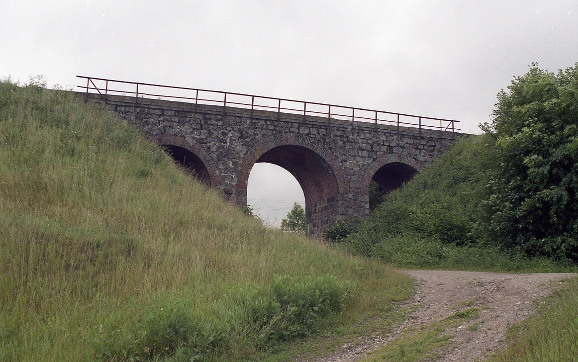 Bajorai, Kretinga district, Lithuania